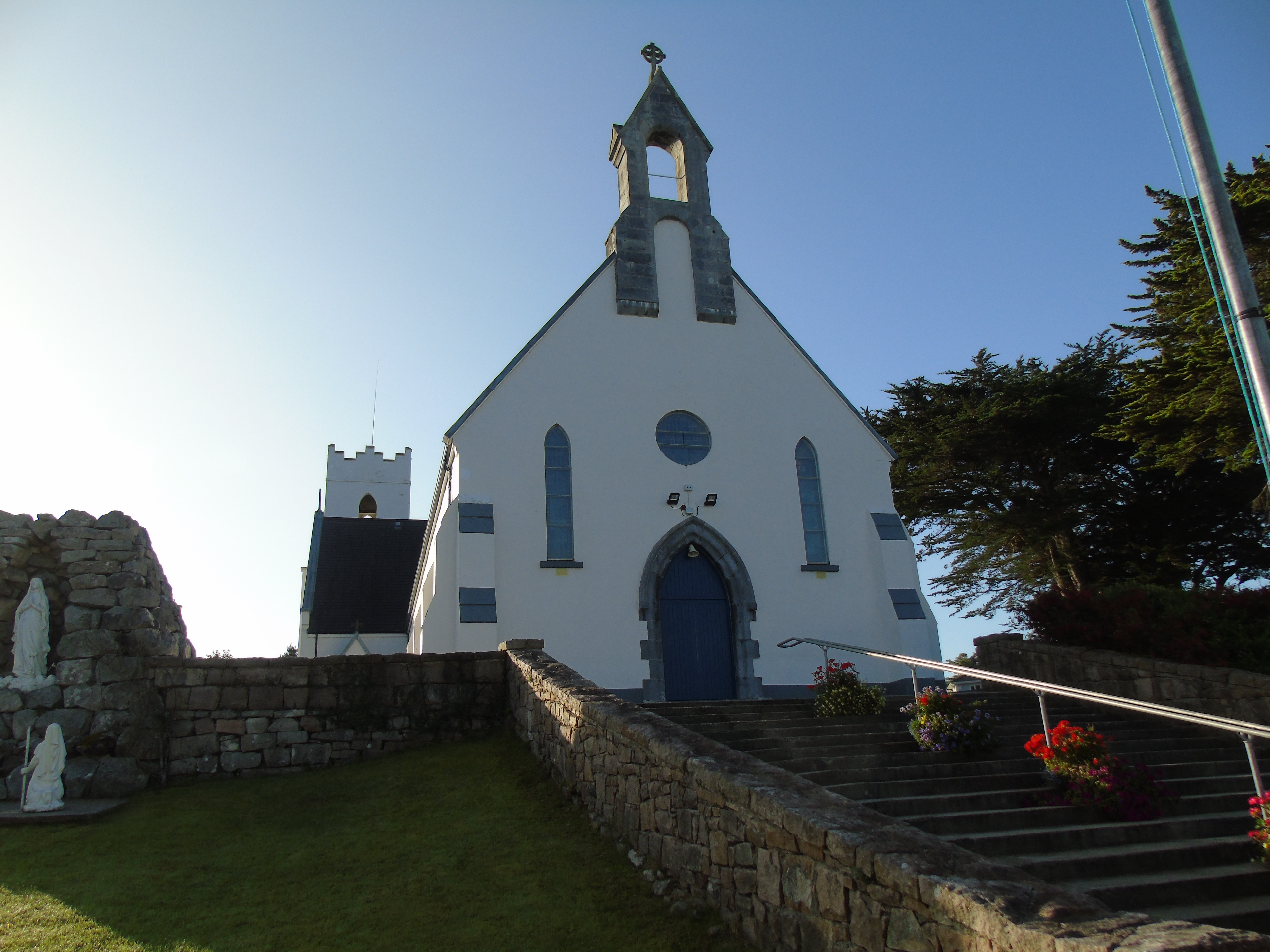 Carraroe, Seipéal Mhic Dara. Wikidata has entry Q55028399 with data related to this item.